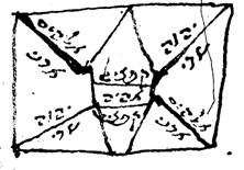 piece of amulet text from 15th century Jewish magic work.